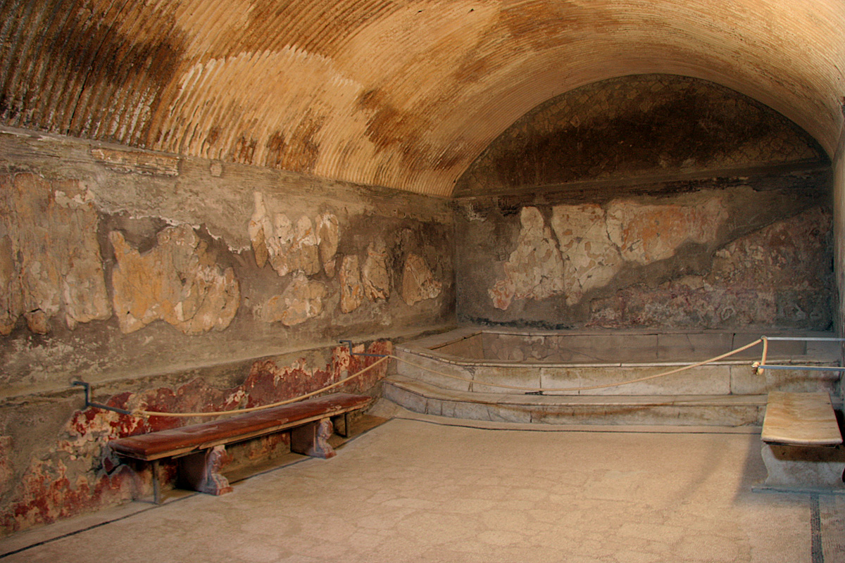 Women's thermae (Herculaneum)